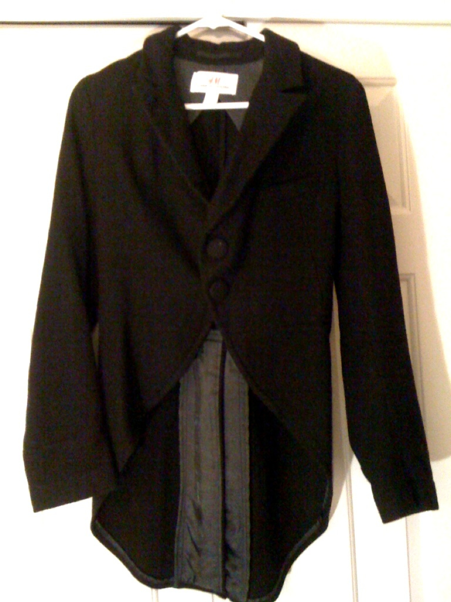 Comme des Garcons fashion brand menswear for H&M store, 2009